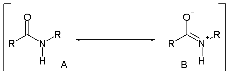 Amide resonance structures